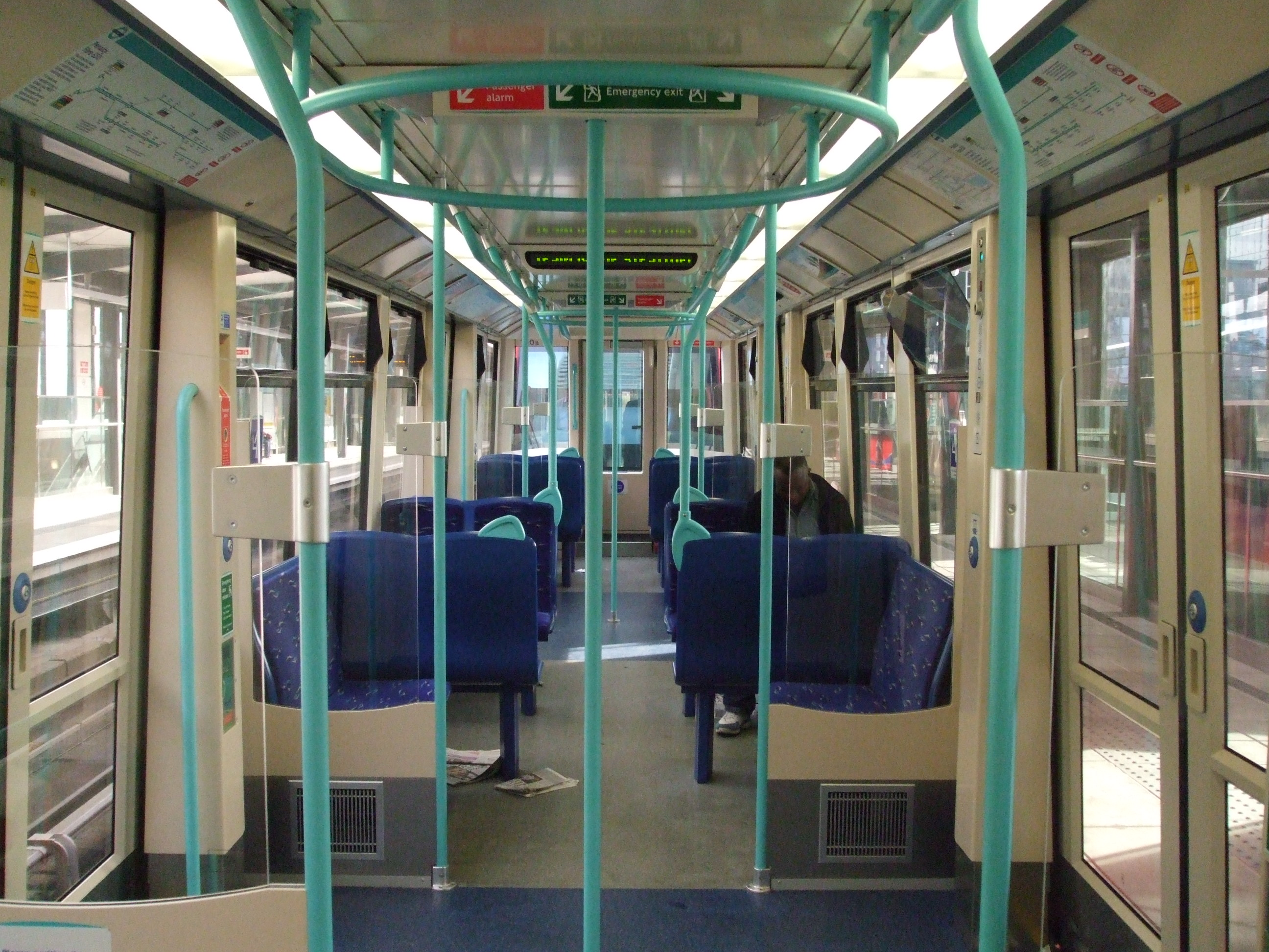 Interior of the B07 stock (at time of writing) the most modern of the Docklands Light Railway stock